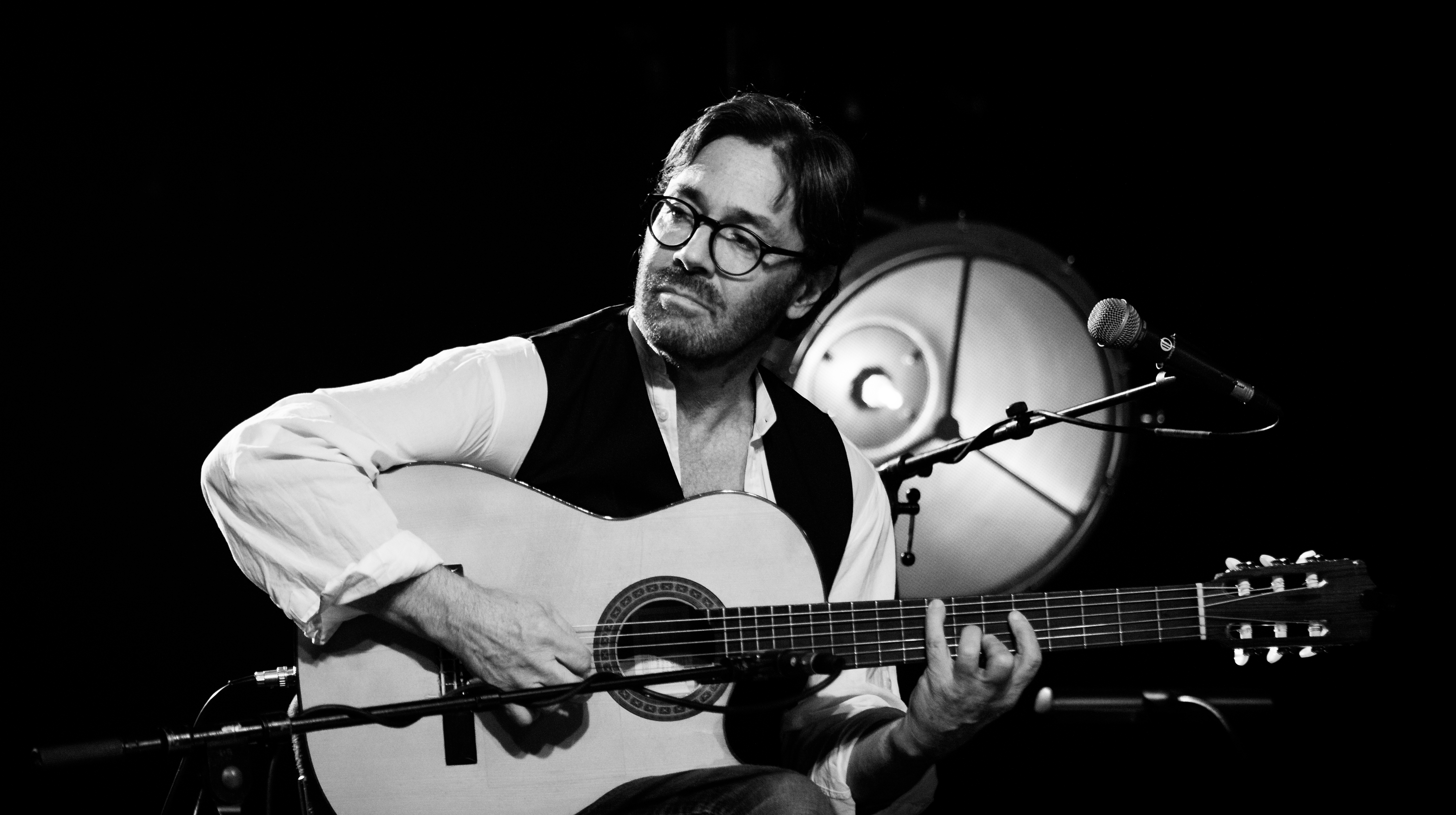 Al Di Meola with Peo Alfonsi (2nd Guitar) and Peter Kaszas (Drums, Percussion) - Leverkusener Jazztage 2016